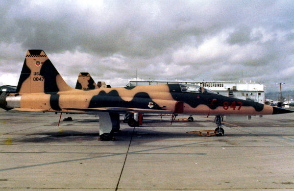 Northrop F-5E Tiger II 73-0847 at Clark AB Philippines Source: USAF Museum photo